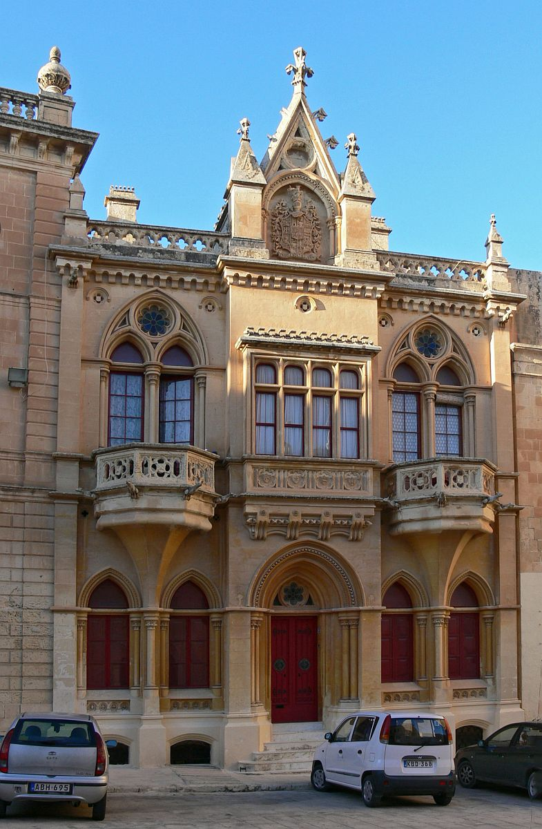 Medieval house in Mdina, Malta